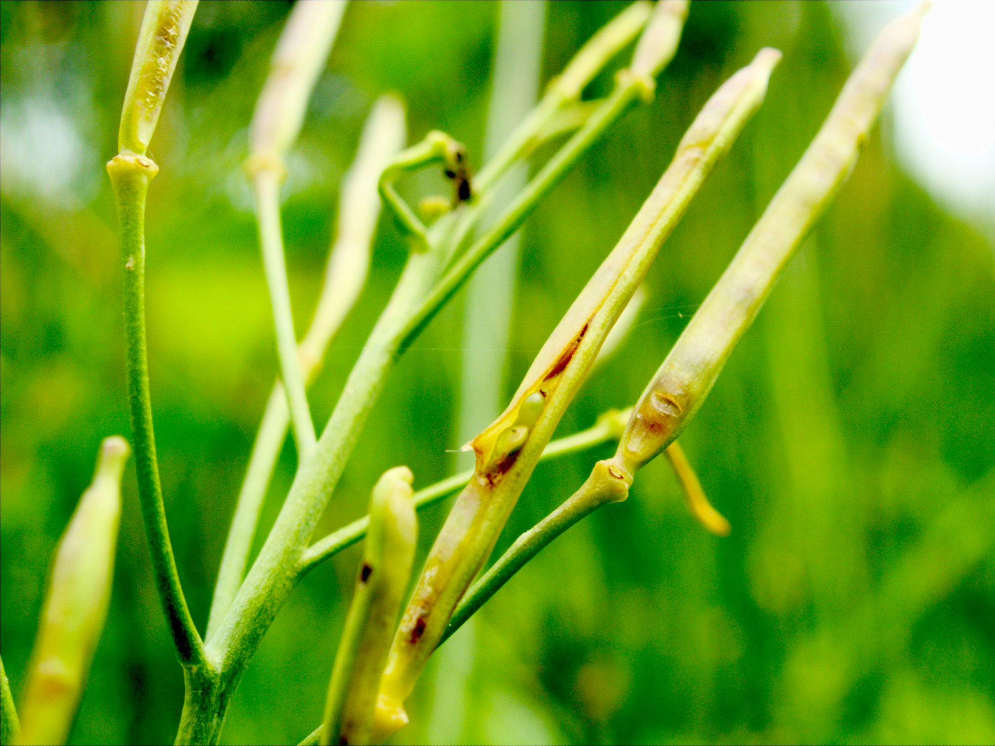 Name: Cardamine pratensis, pods. Family: Brassicaceae. Location. Münster, NRW, Germany